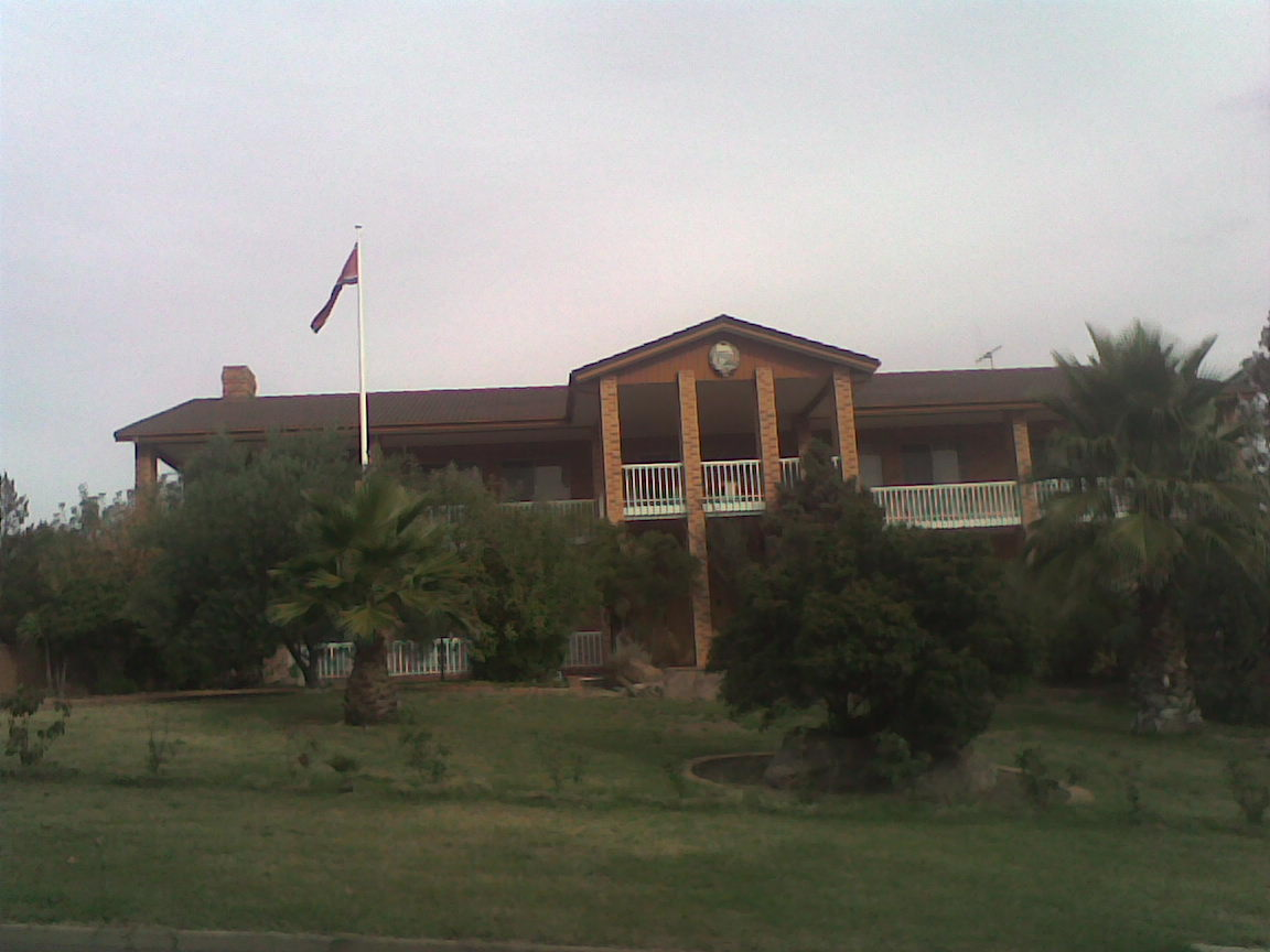 Embassy of the DPR Korea in Canberra, Australia. (now: former embassy)